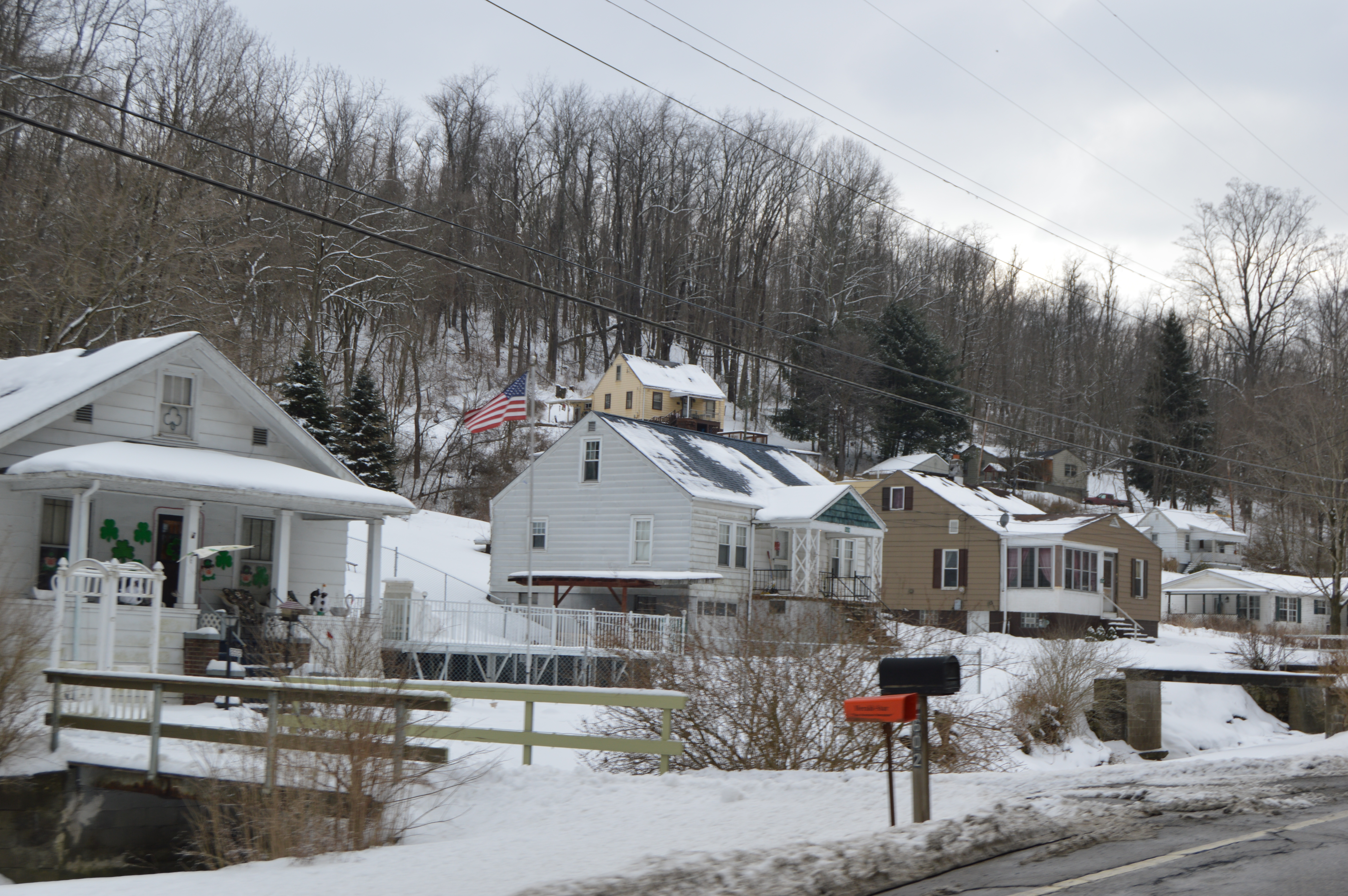 Houses on the southern side of New Alexandria Road (State Route 151) in New Alexandria, Ohio, United States.